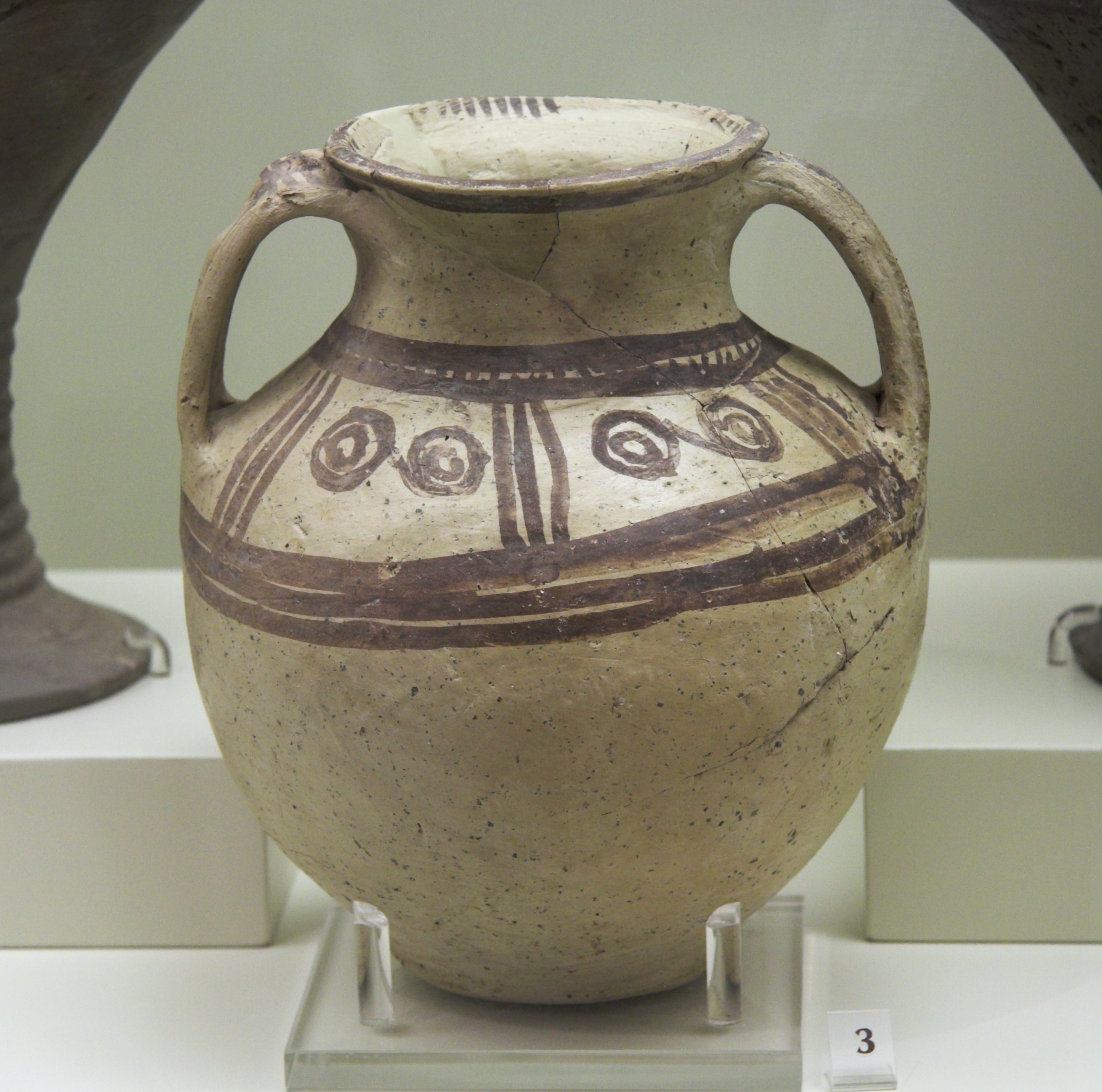 Minyan amphora from the tomb Y, the MH III period, ie the years 1700-1600 BC. Archaeological Museum of Mycenae, MM 430.